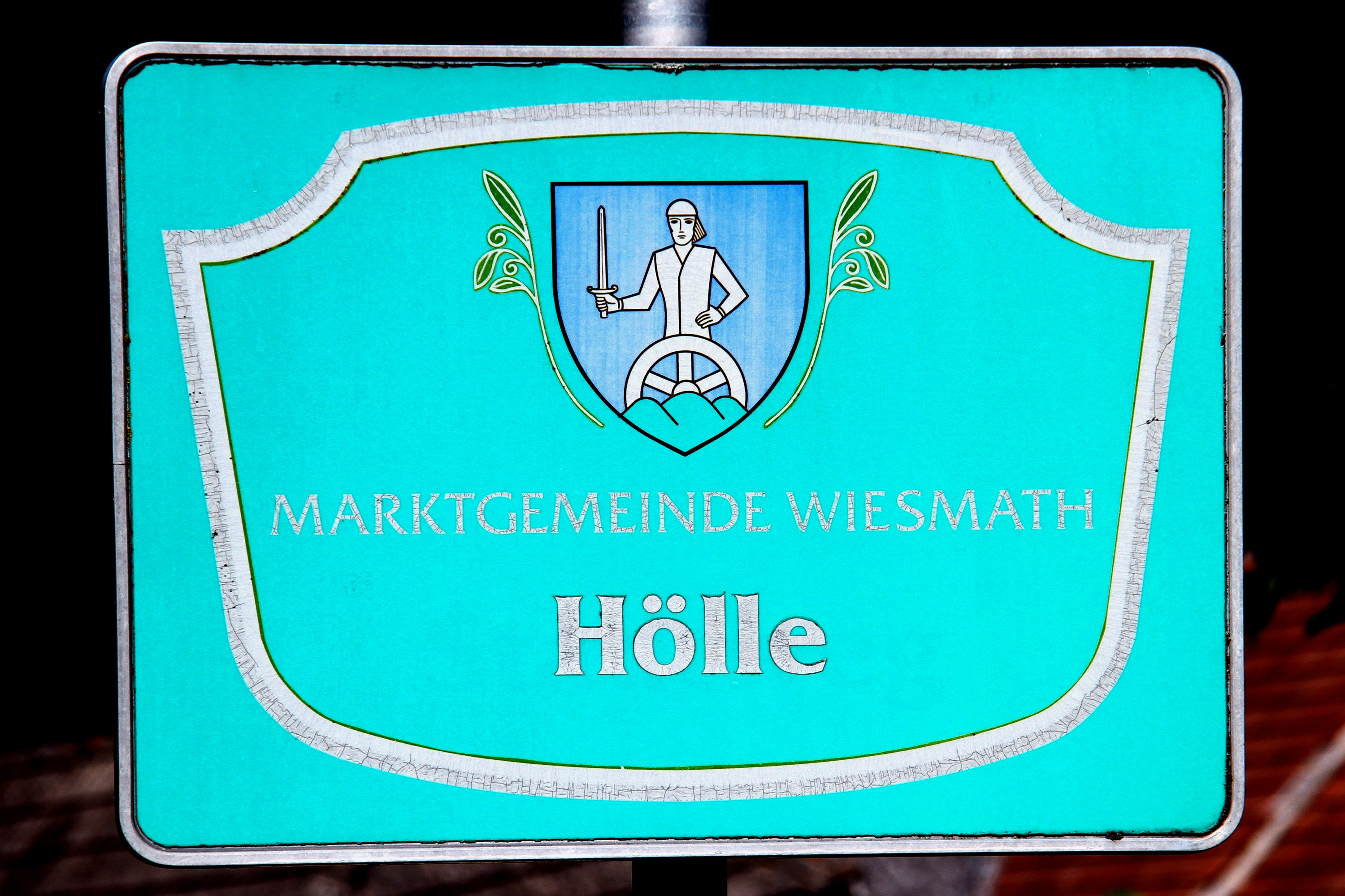 Municipality Wiesmath in Lower Austria. – The photo shows the place sign of the village Hölle.